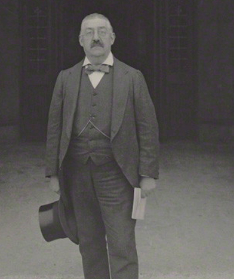 Sir Edmund Broughton Barnard, owner of the Manor of Groves, Hertfordshire circa 1910